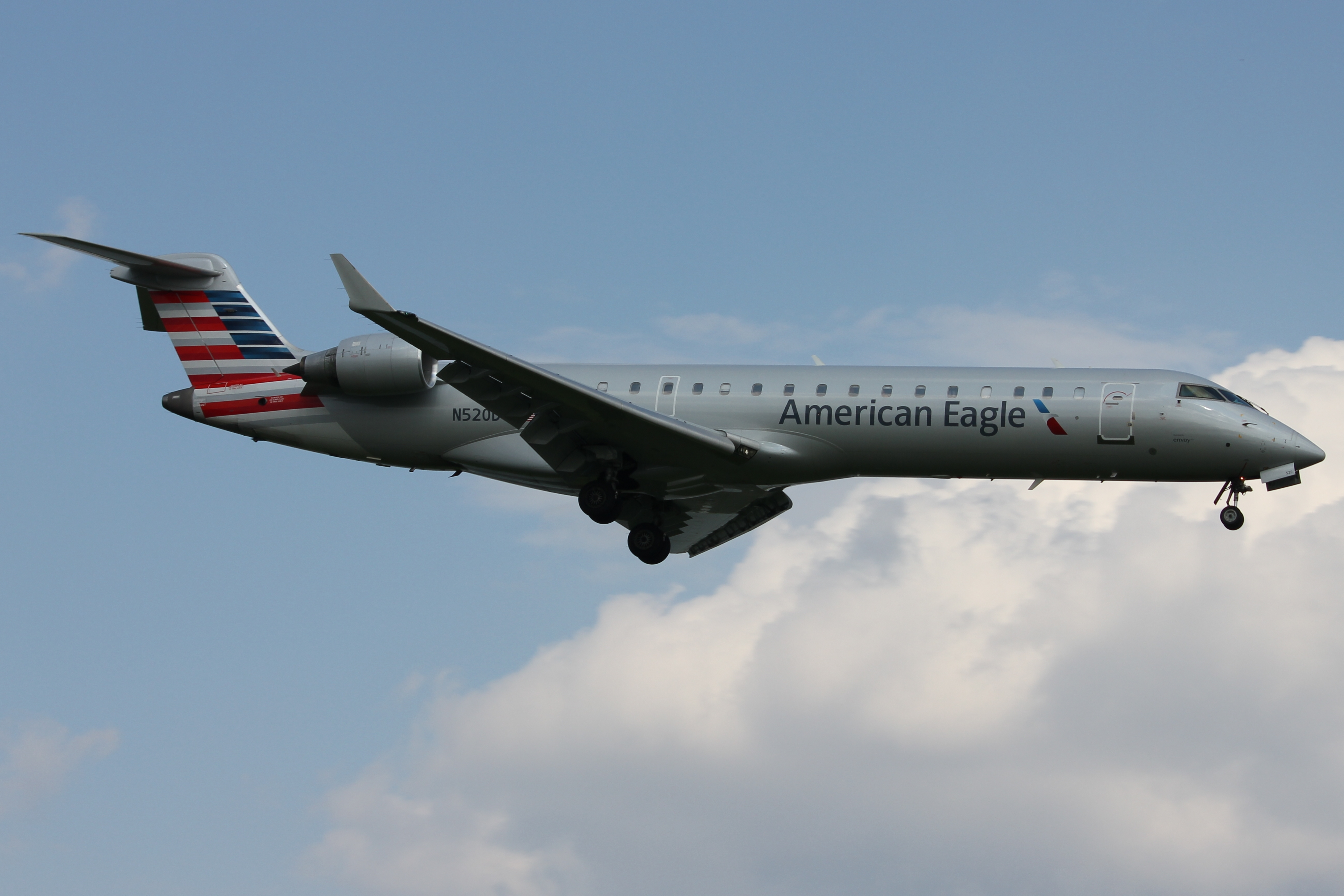 American Eagle CRJ700 in new livery approaching Washington, D.C. Reagan National Airport